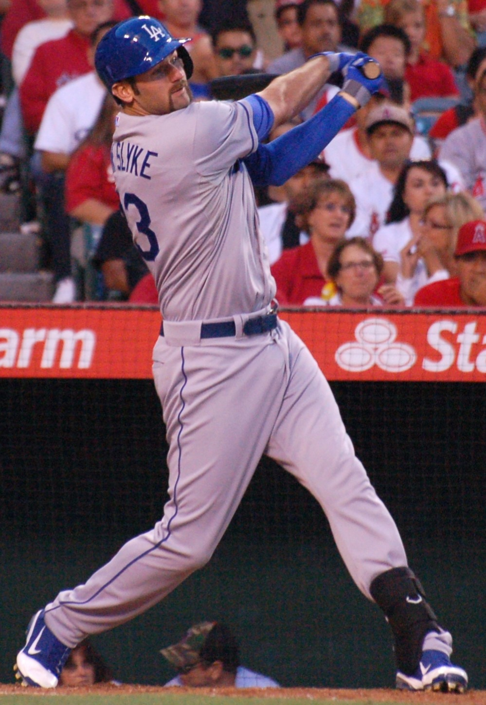 Van Slyke in 2013